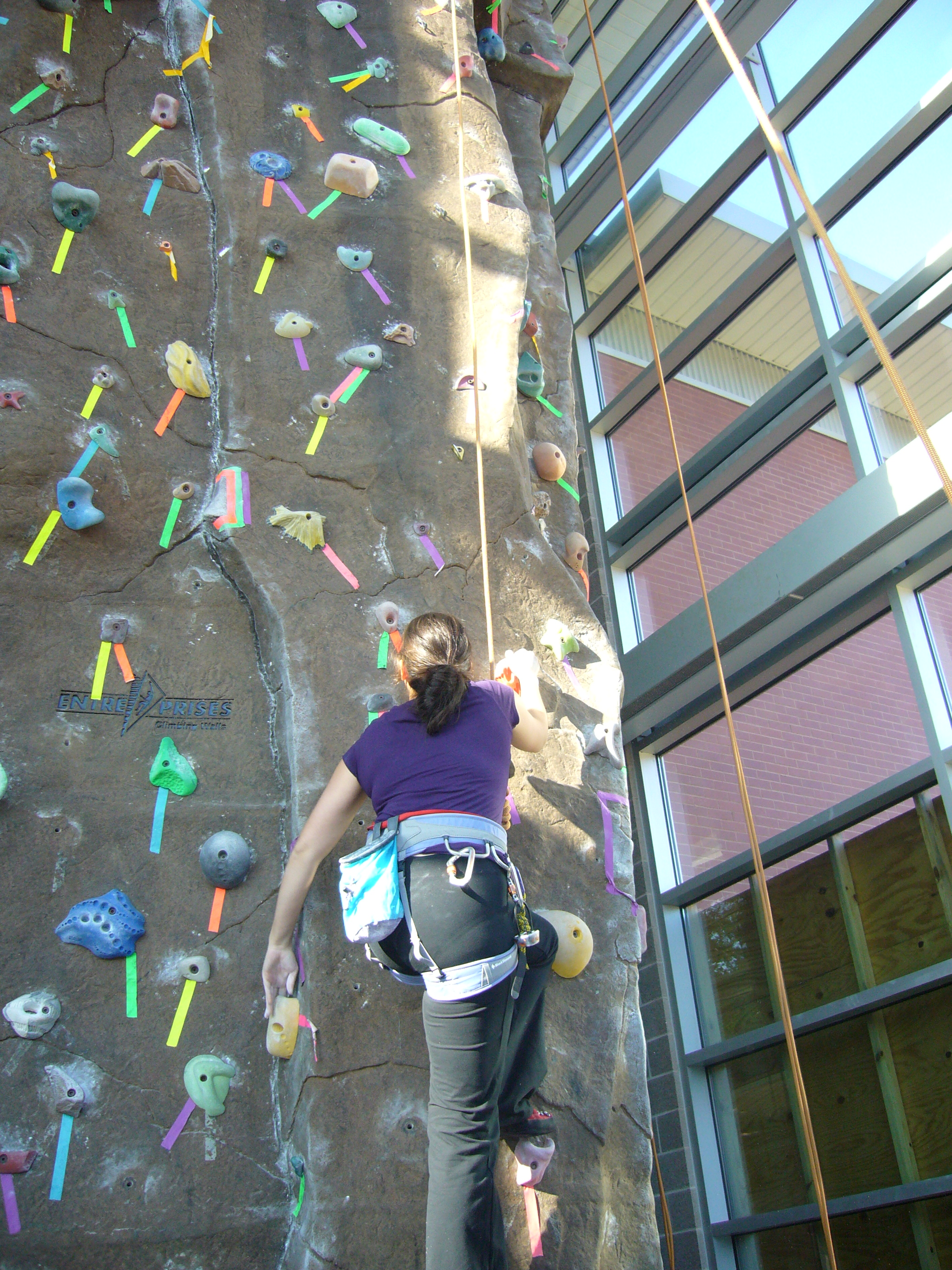 Female student indoor climbing